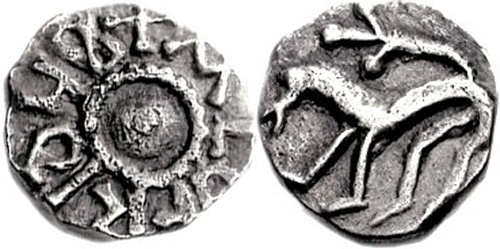 Anglo-Saxons, Kings of Northumbria. Aldfrith of Northumbria. 685-705. AR Sceat (1.09 g, 6h). York mint. +AldFRIdUS, pellet-in-annulet Lion with forked tail standing left. Pirie, Guide 1.2; North 176; SCBC 846. Good VF, toned. Struck on good metal.